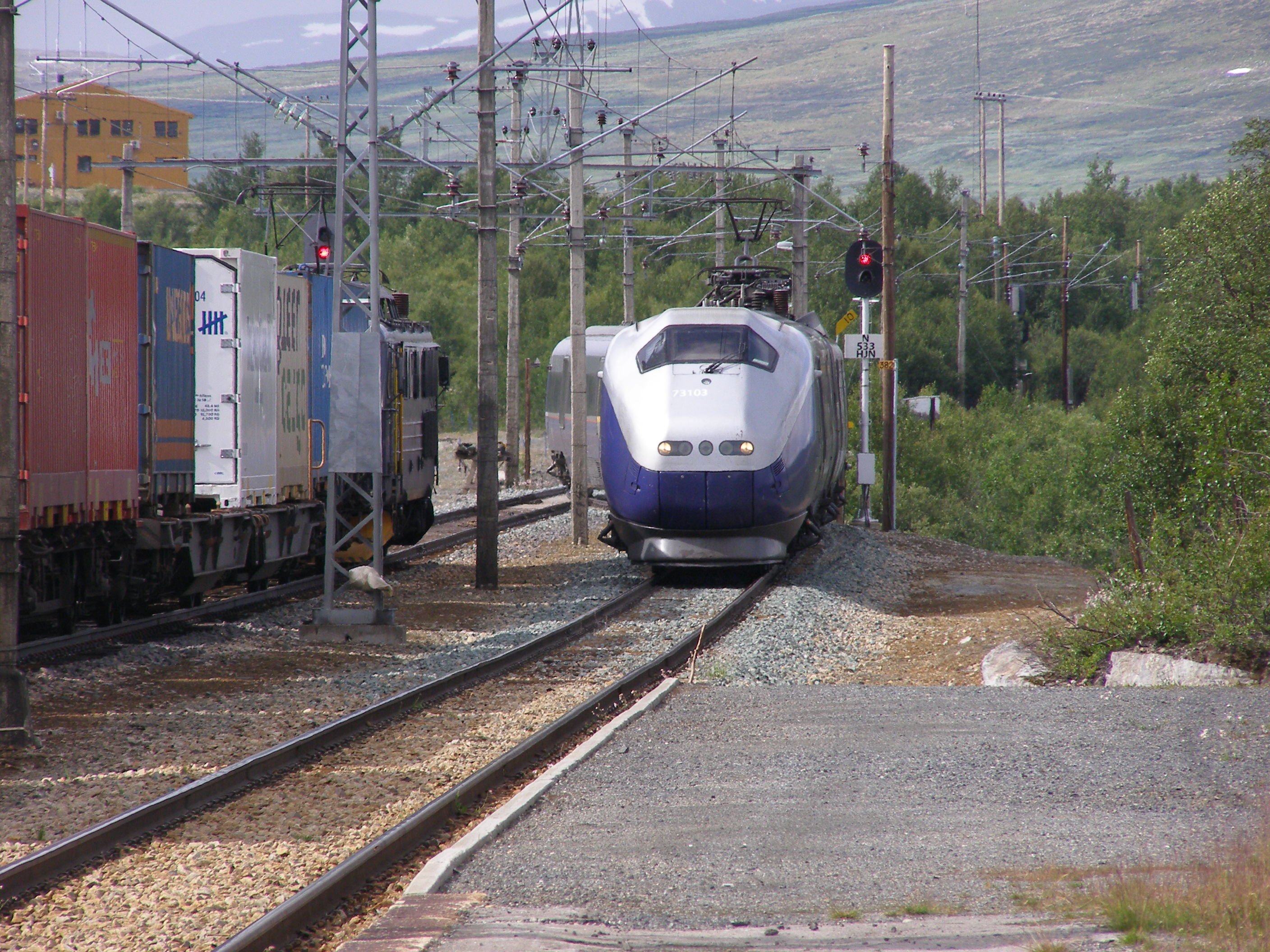 NSB Class 73 and CargoNet El 14 at Hjerkinn Station, Norway